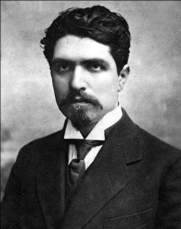 Stepan Shaumyan, 1917